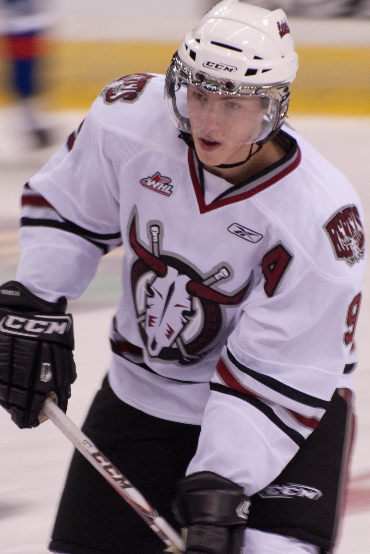 Ryan Nugent-Hopkins October 2010.